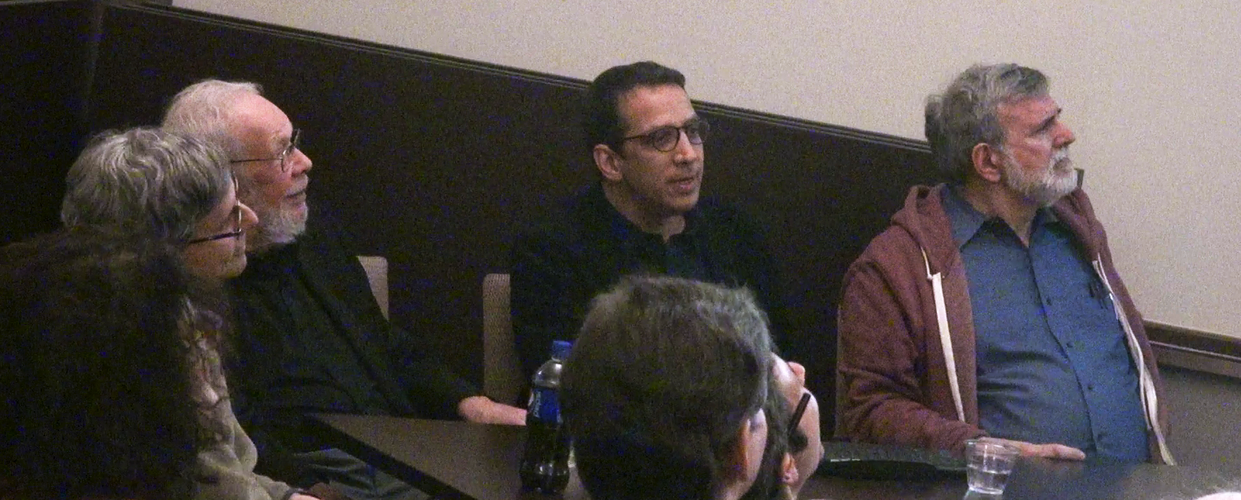 From left to right (background): Comics creators Paul Levitz, Al Jaffee, Peter Kuper, and Sam Viviano at a panel at Columbia University in early 2014.